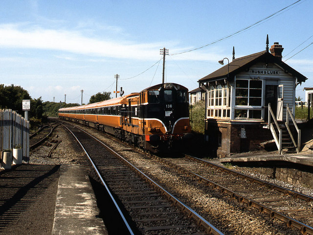 Train entering Rush & Lusk station. Forming the 09.27 Dublin - Drogheda passenger service, an Irish Rail 121 class locomotive hauls a rake of Mk3 push-pull stock into Rush & Lusk station. The GNR(I) signal cabin was another victim of the 1992-97 line upgrade project although, when last seen in 2007, it was still standing.